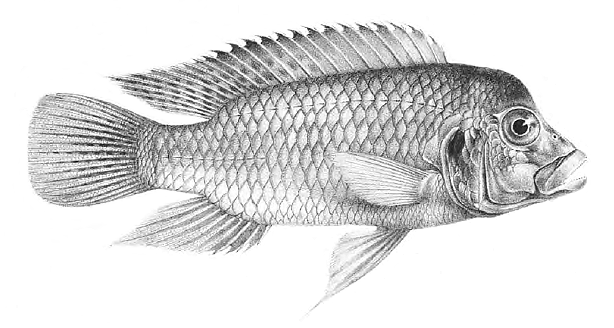 Drawing of holotype of Haplochromis demeusii (Boulenger, 1899), a haplochromine cichlid from Bangala, Upper Congo.